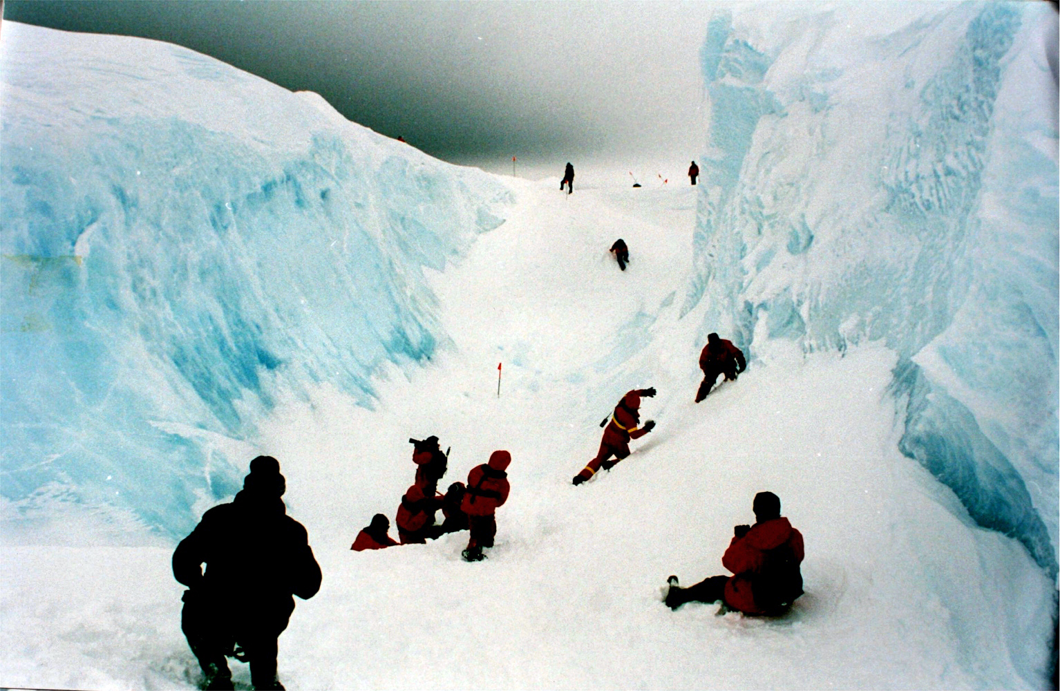 A CrevasseRoss Ice Shelf in Ross Sea Photograped by Brocken Inaglory in January of 2001